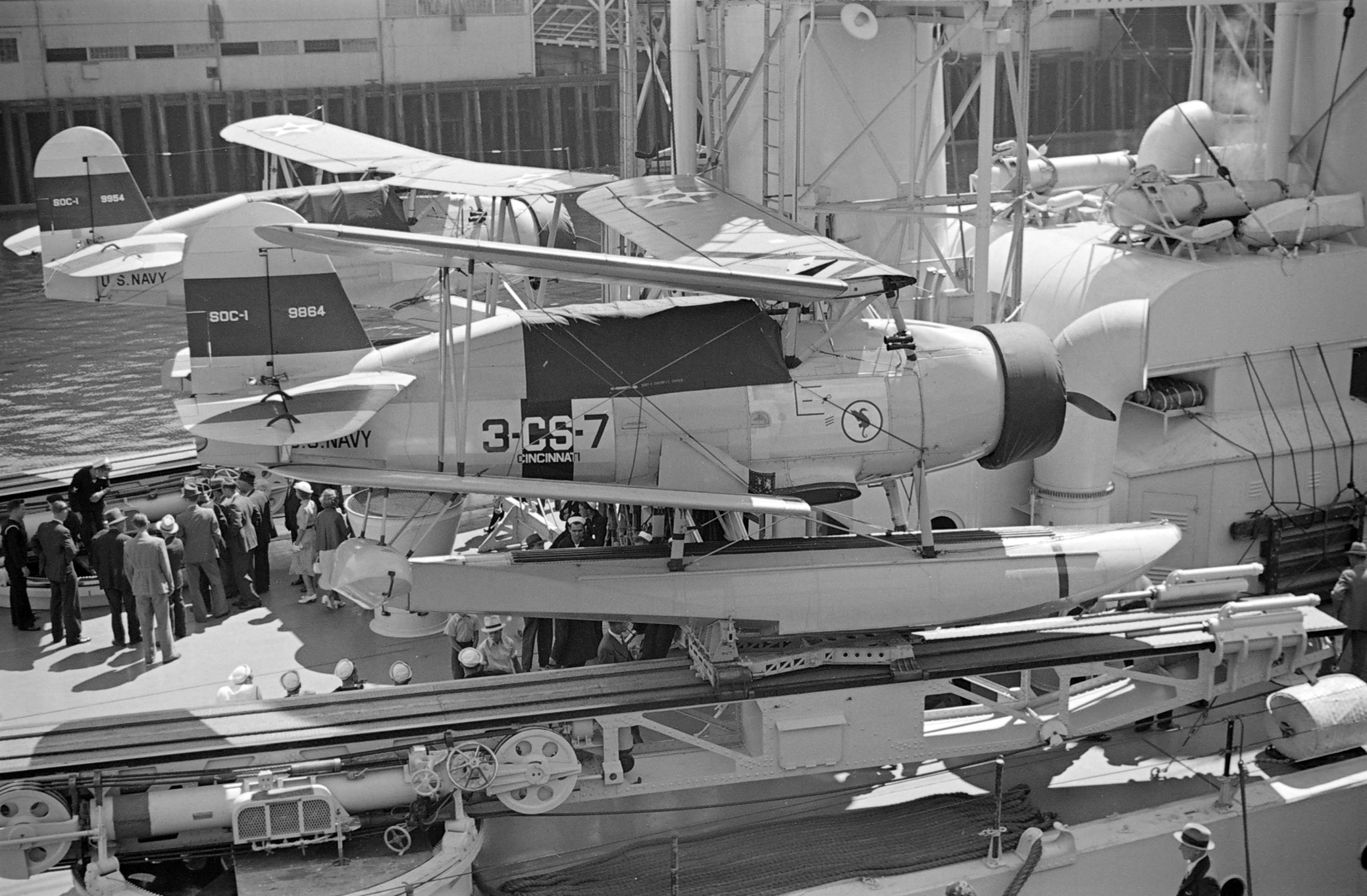 Curtiss SOC Seagull biplane reconnaissance floatplanes on catapults aboard USS Cincinnati at Vancouver.